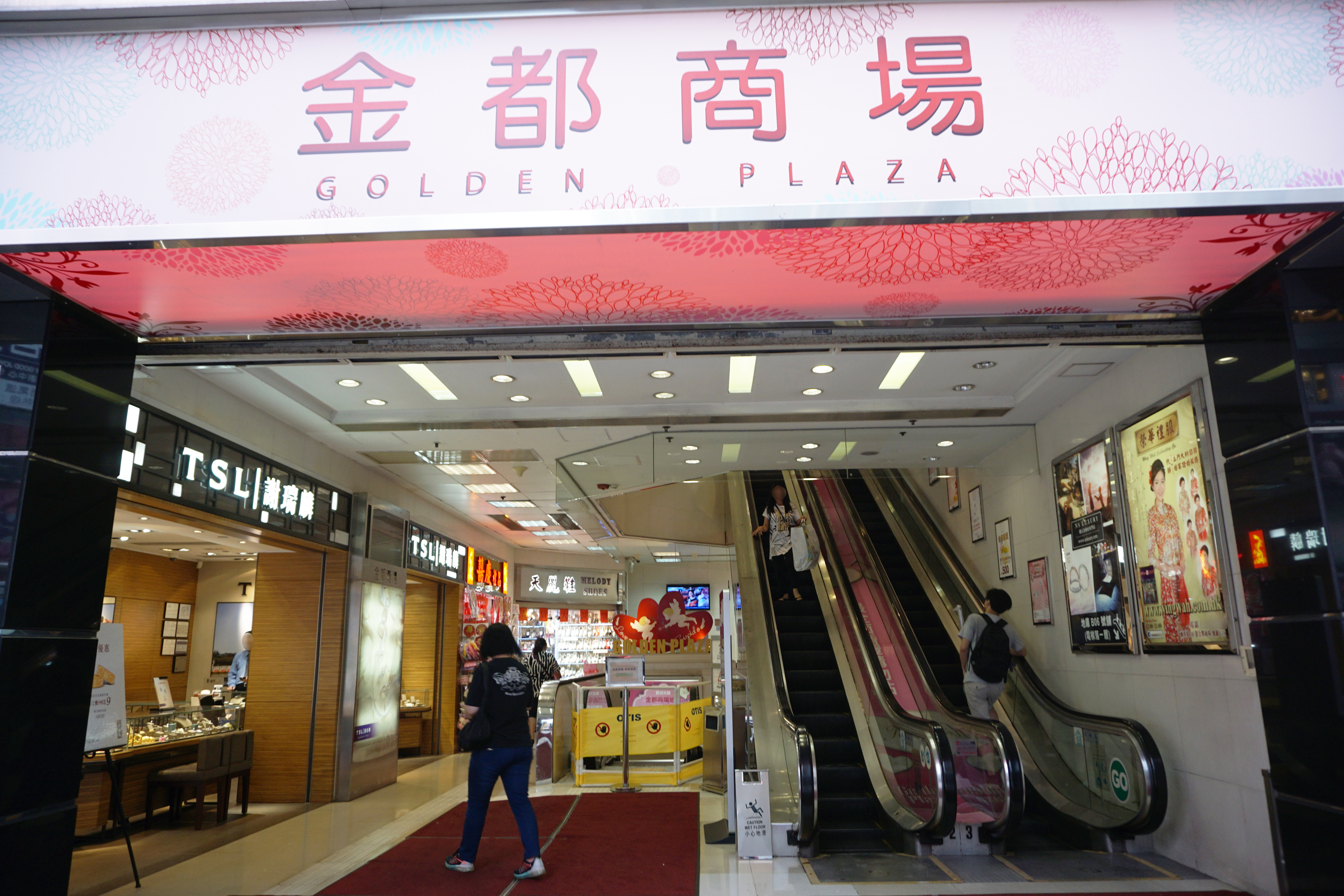 Golden Plaza in Prince Edward, Hong Kong.